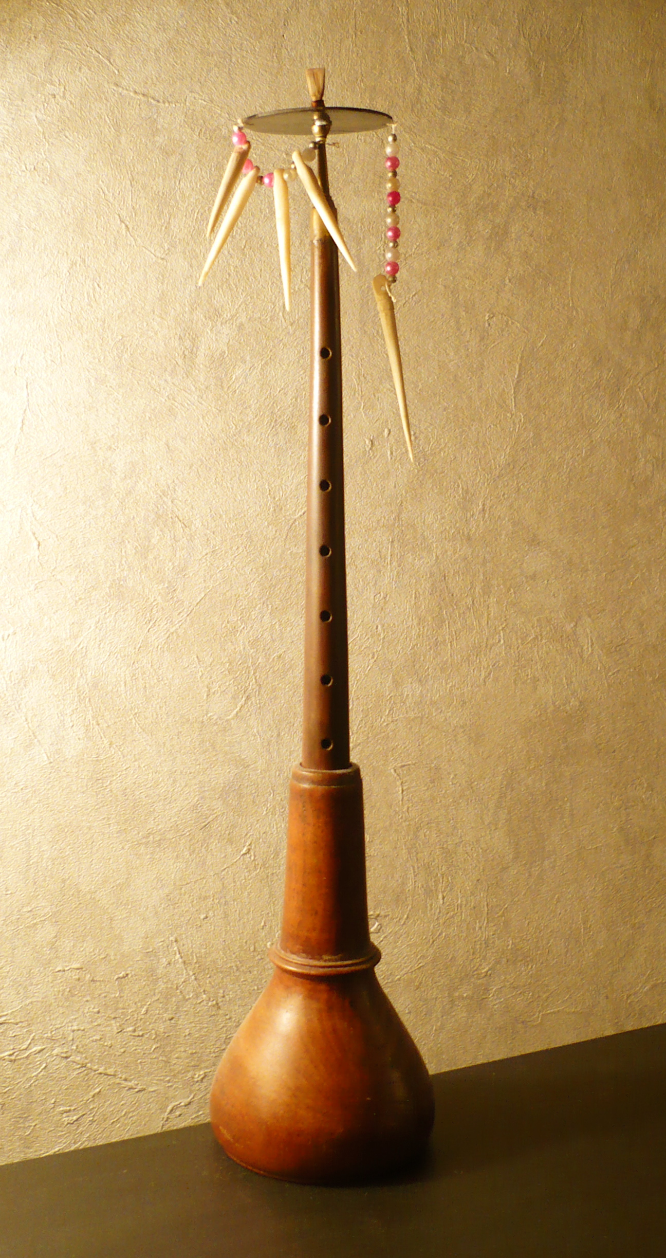 A kèn bầu (double reed woodwind instrument of Hue, Vietnam). Photo taken in Kent, Ohio with a Panasonic Lumix digital camera (model DMC-LS75).